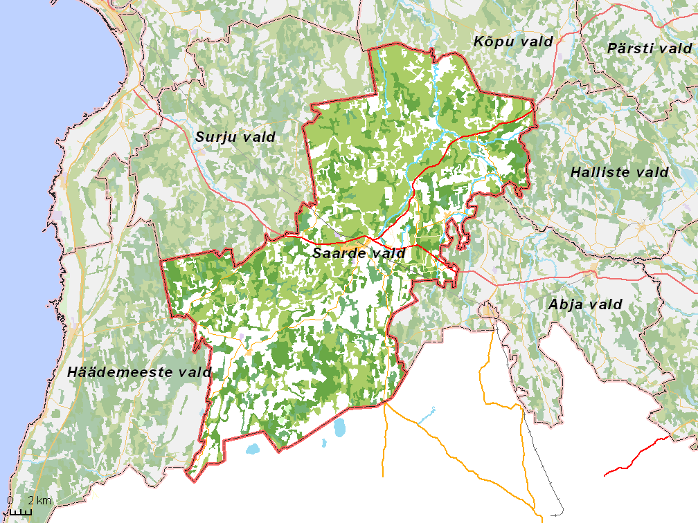 Map of municipality in Estonia